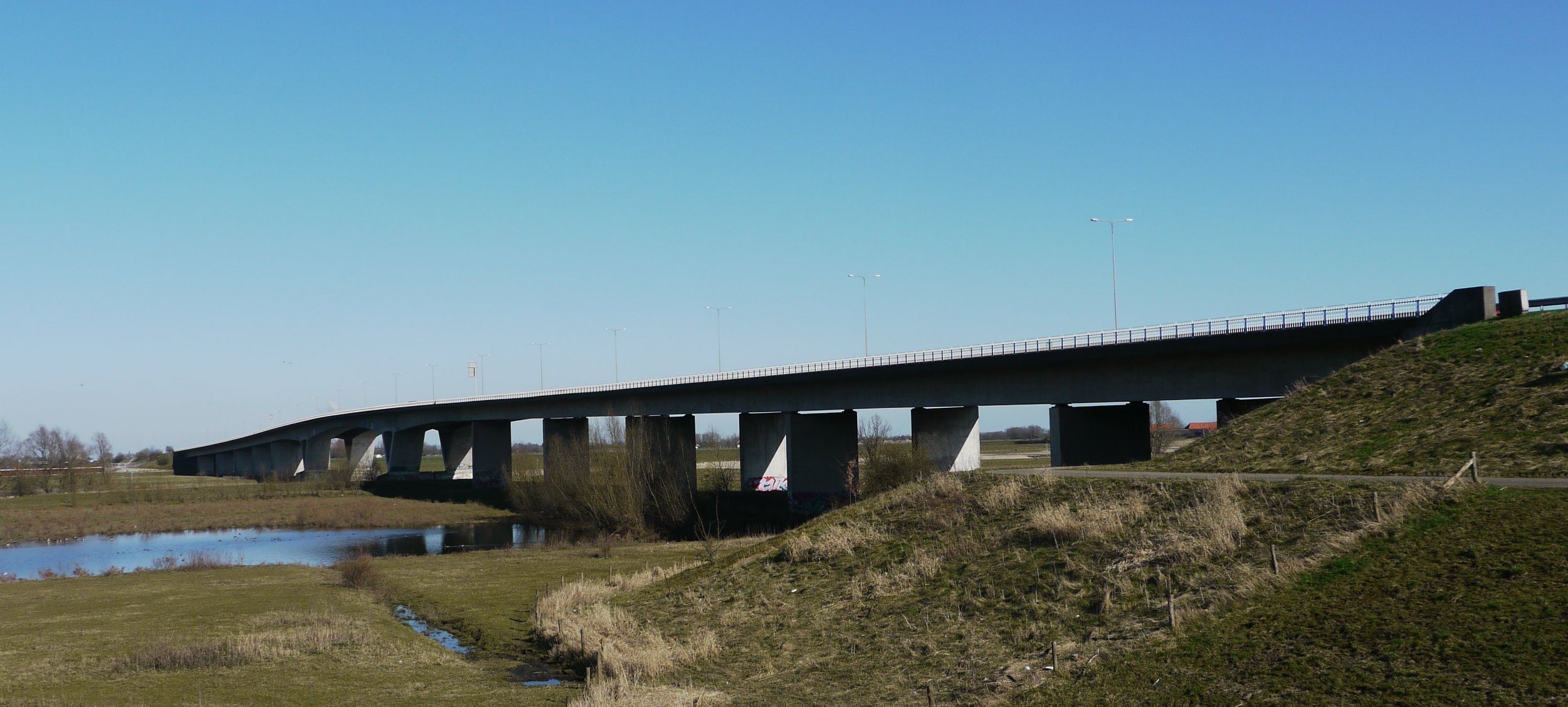 Andrej Sacharov bridge, Arnhem (NL)